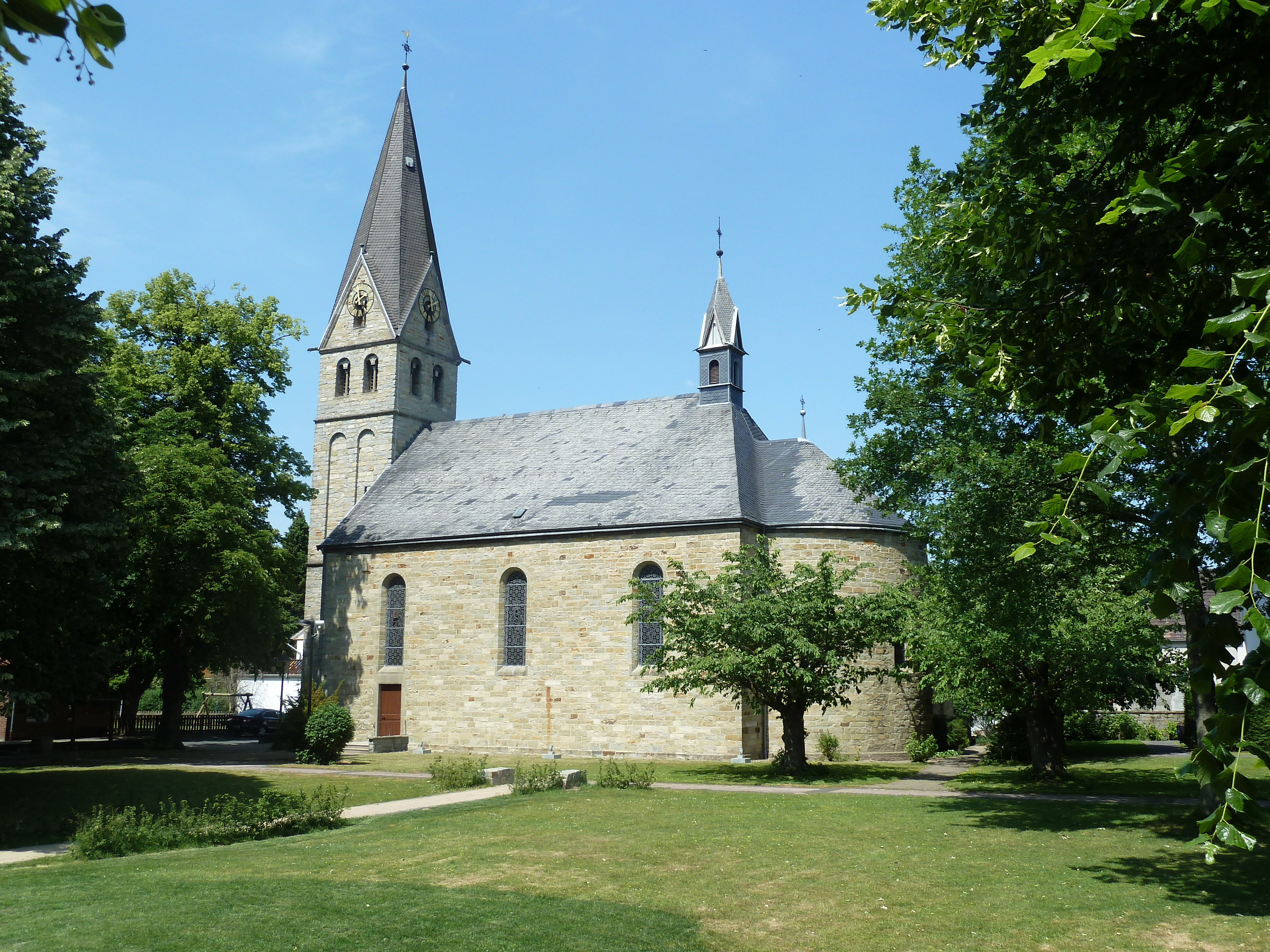 Church, St.Barbara in Langeneicke